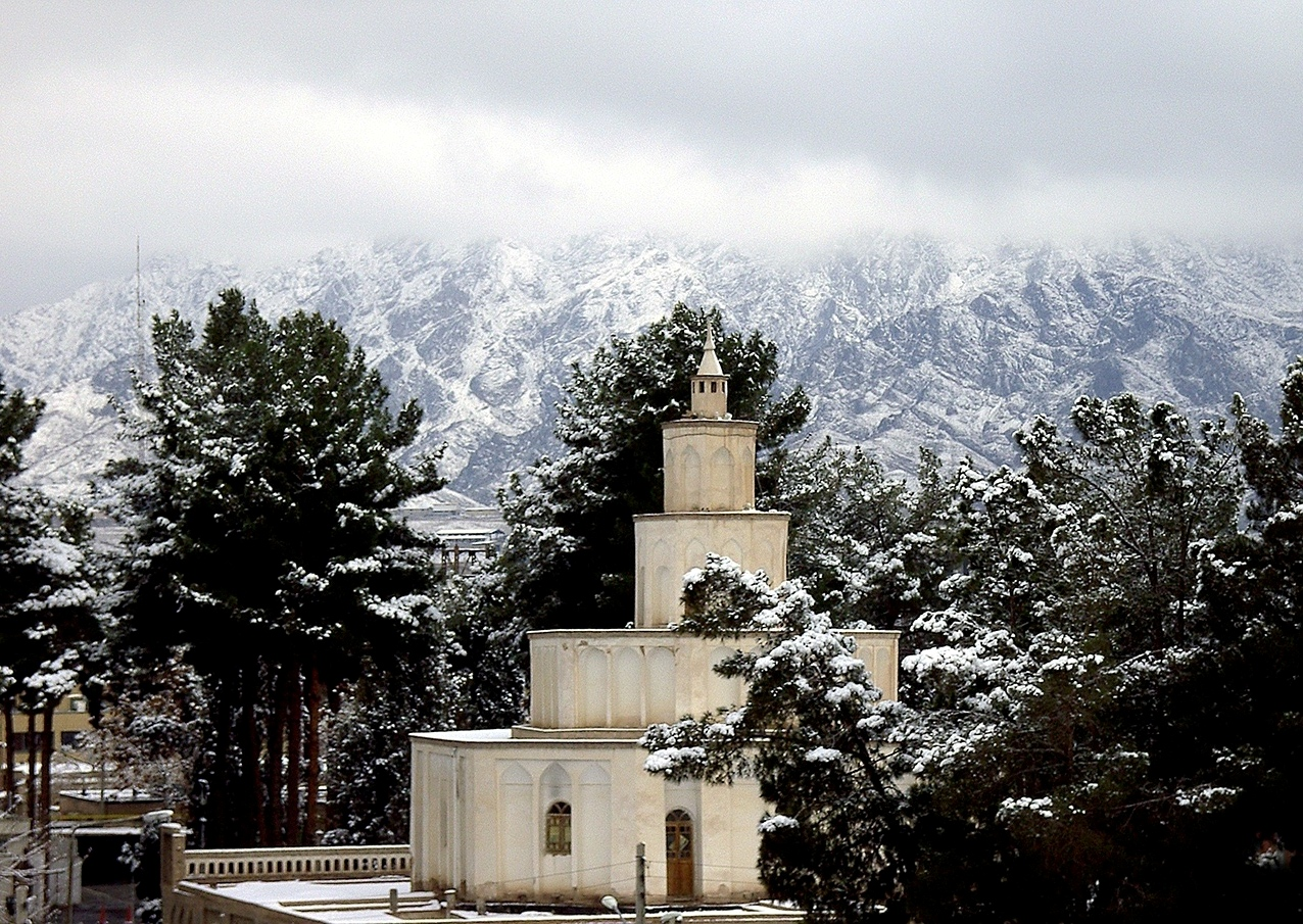 The Kiosk Citadel (Arg e Kolah-Farangi), Birjand.